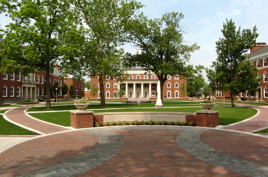 DePauw University academic quad